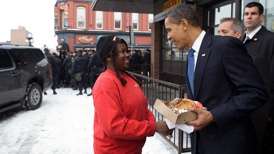 President Barack Obama being presented with a "Beaver Tail" pastry in the Byward Market, Ottawa, Canada.